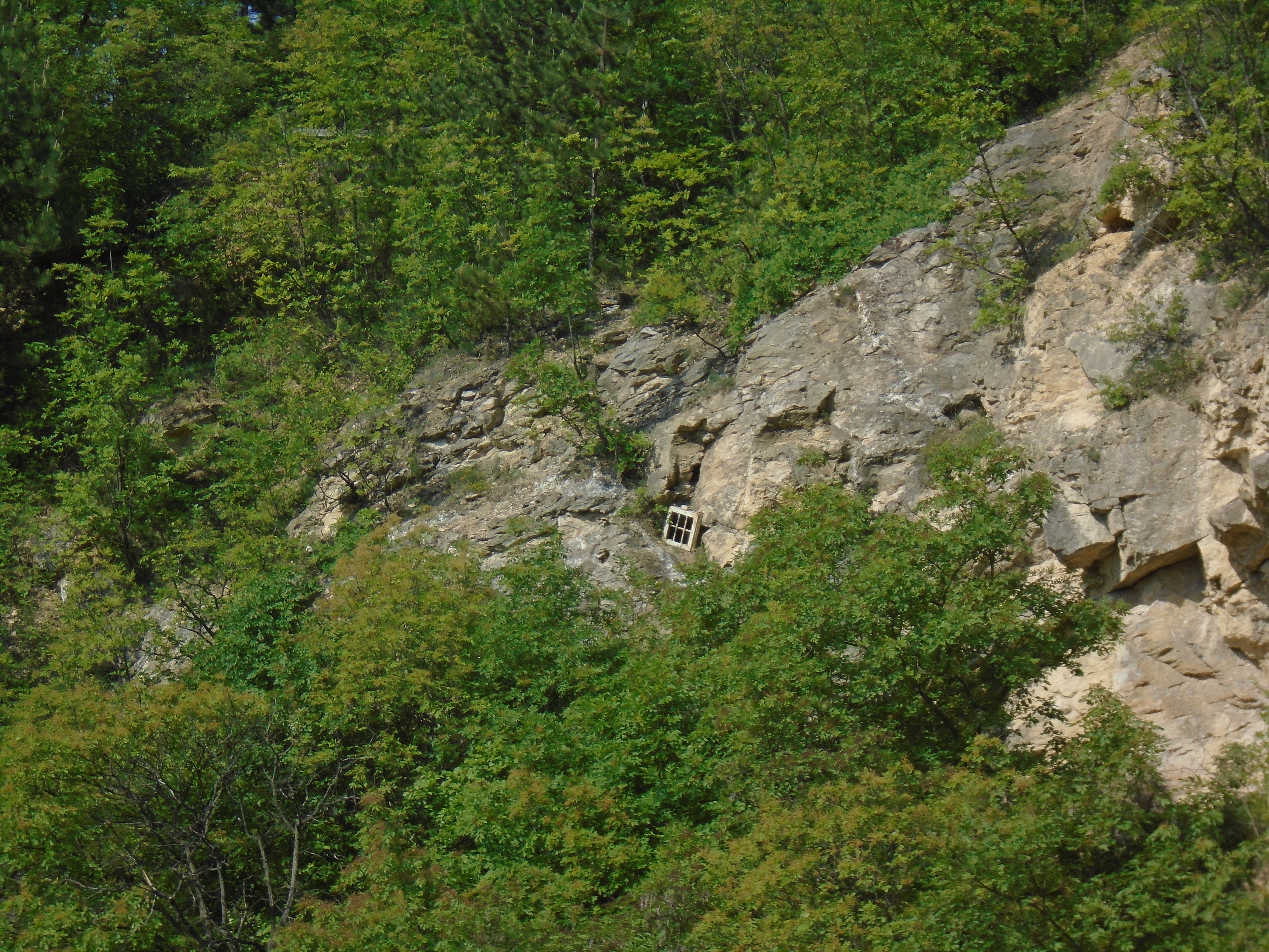 Barit Cave upper entrance.